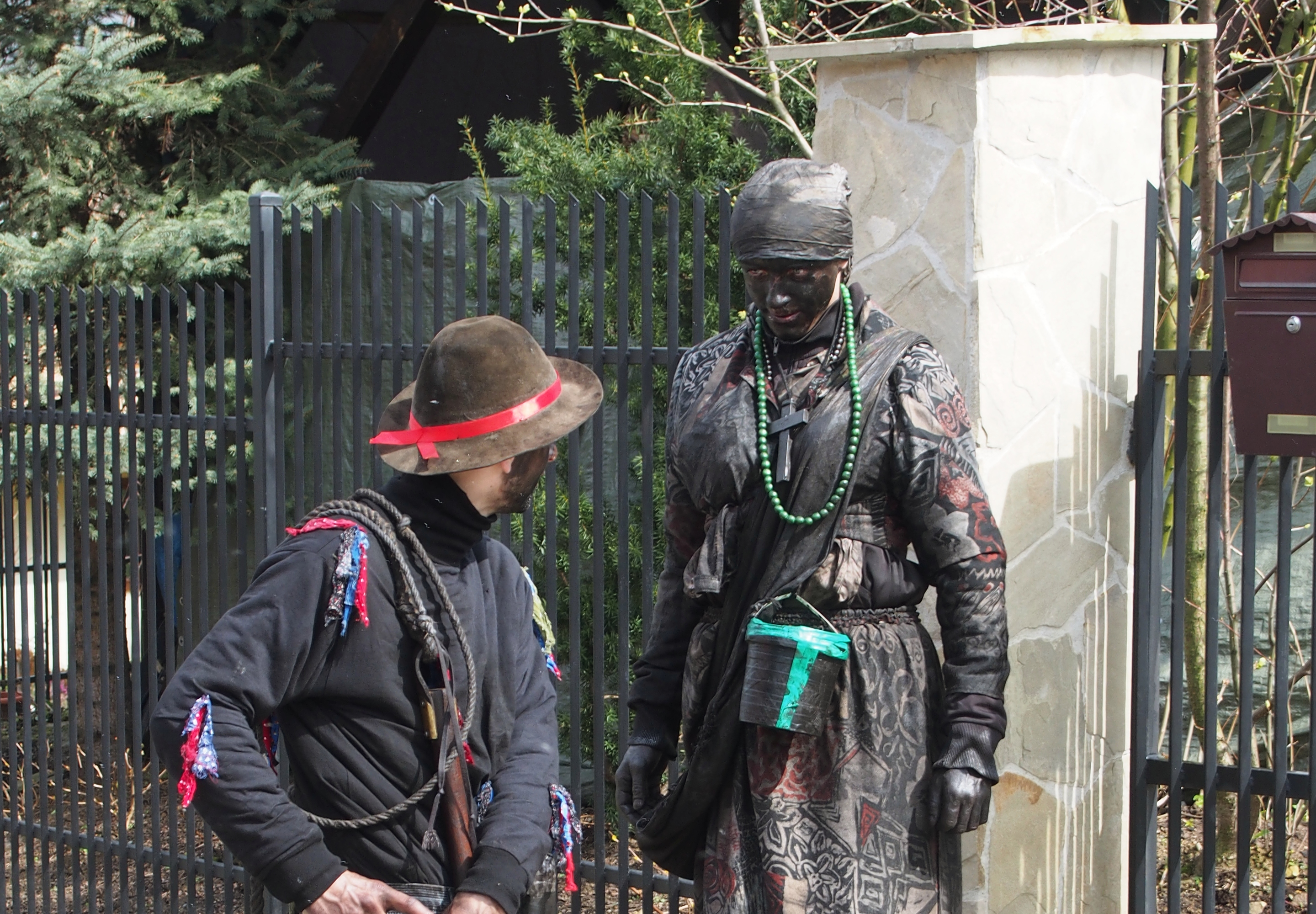 Siuda Baba, Polish folk tradition on Easter Monday, 6th April 2015, Lednica Górna, Poland. Ritual participants dressed up as Siuda Baba and the Gypsy prepare to visit local residents.